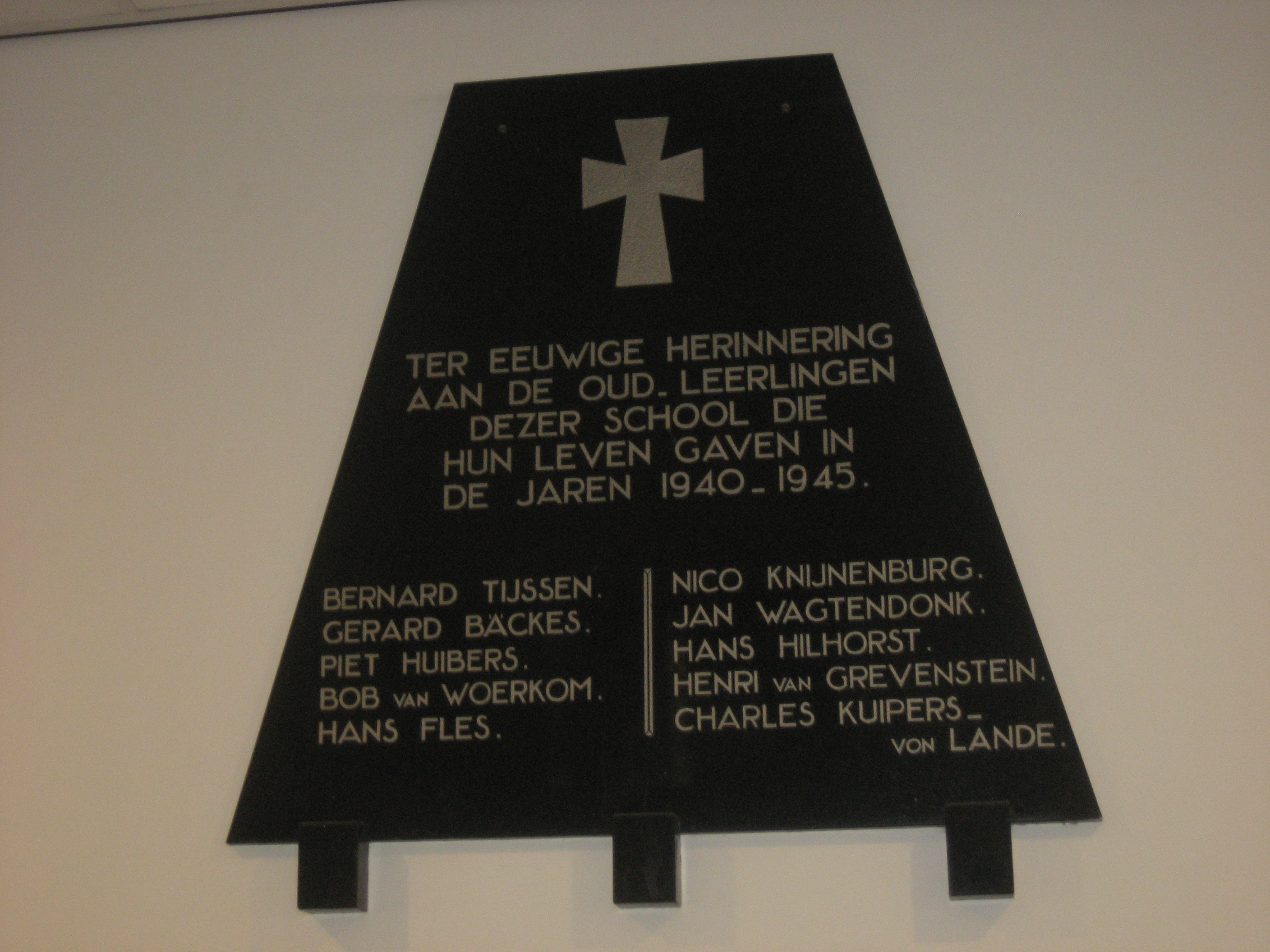 Plaque to commemorate ten old pupils of Bonaventura College, Mariënpoelstraat, Leiden (The Netherlands) who died in World War II: Bernard Tijssen, Nico Knijnenburg, Gerard Bäckes, Jan Wagtendonk, Piet Huibers, Hans Hilhorst, Bob van Woerkom, Henri van Grevenstein, Hans Fles, Charles Kuipers-Von Lande